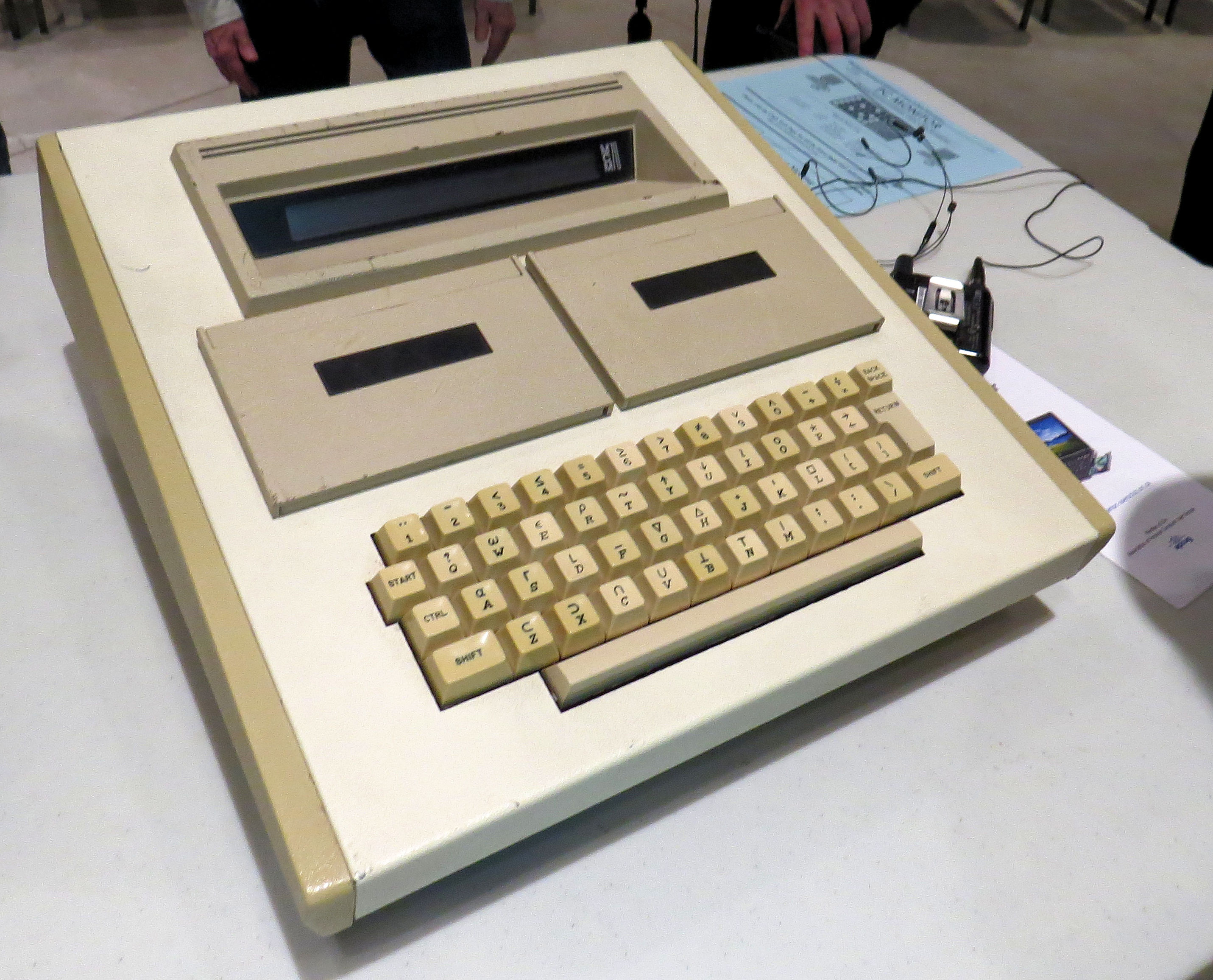 MCM Model 70 Microcomputer designed and built in Canada from 1972-74 (Kingston and Toronto), AC and/or battery power, two tape cassettes for programs and storage, plasma display screen.